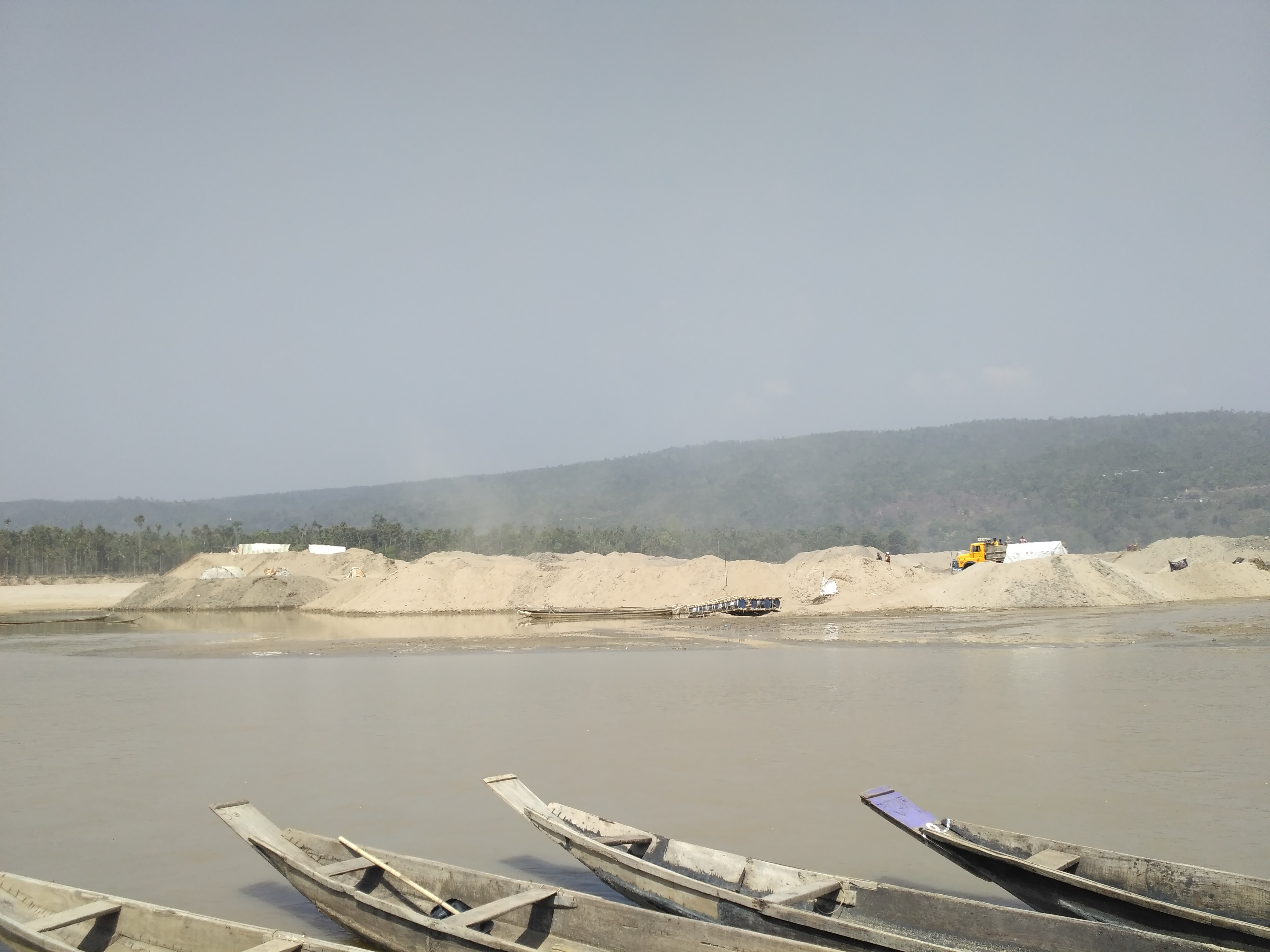 View of River in Jaflong .